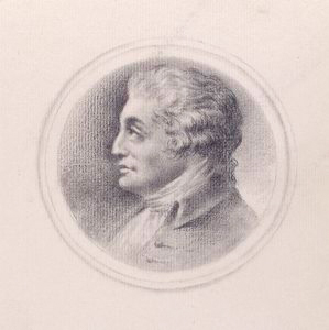 Gioacchino Cocchi (ca. 1720–1804), Italian composer.